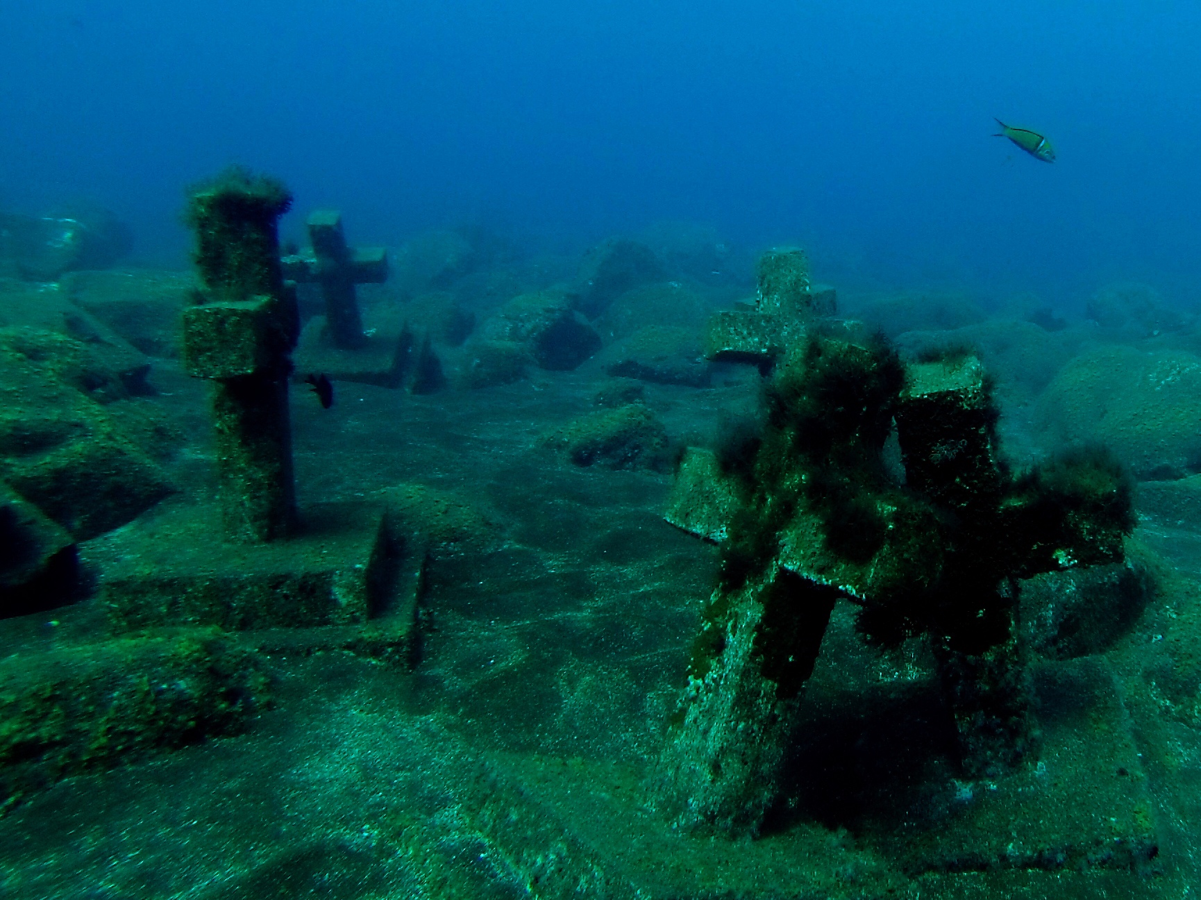 Crosses on sea bottom for the 40 Martyrs of Brazil in a water depth of about 20 meters close to the lighttower Punta de Fuencaliente on island La Palma